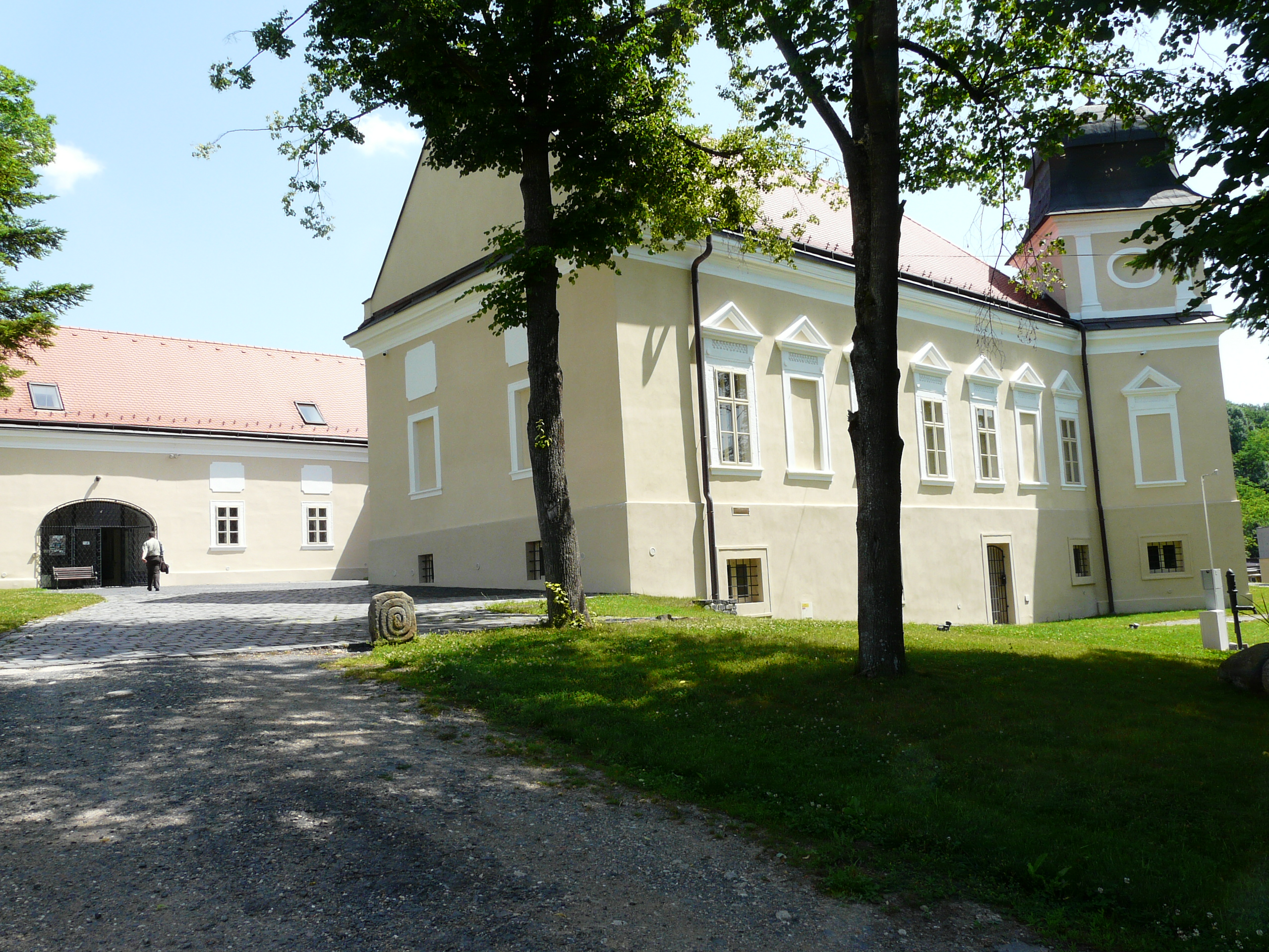 Imre Madách permanent exhibition in Madách Mansion, Dolná Strehová